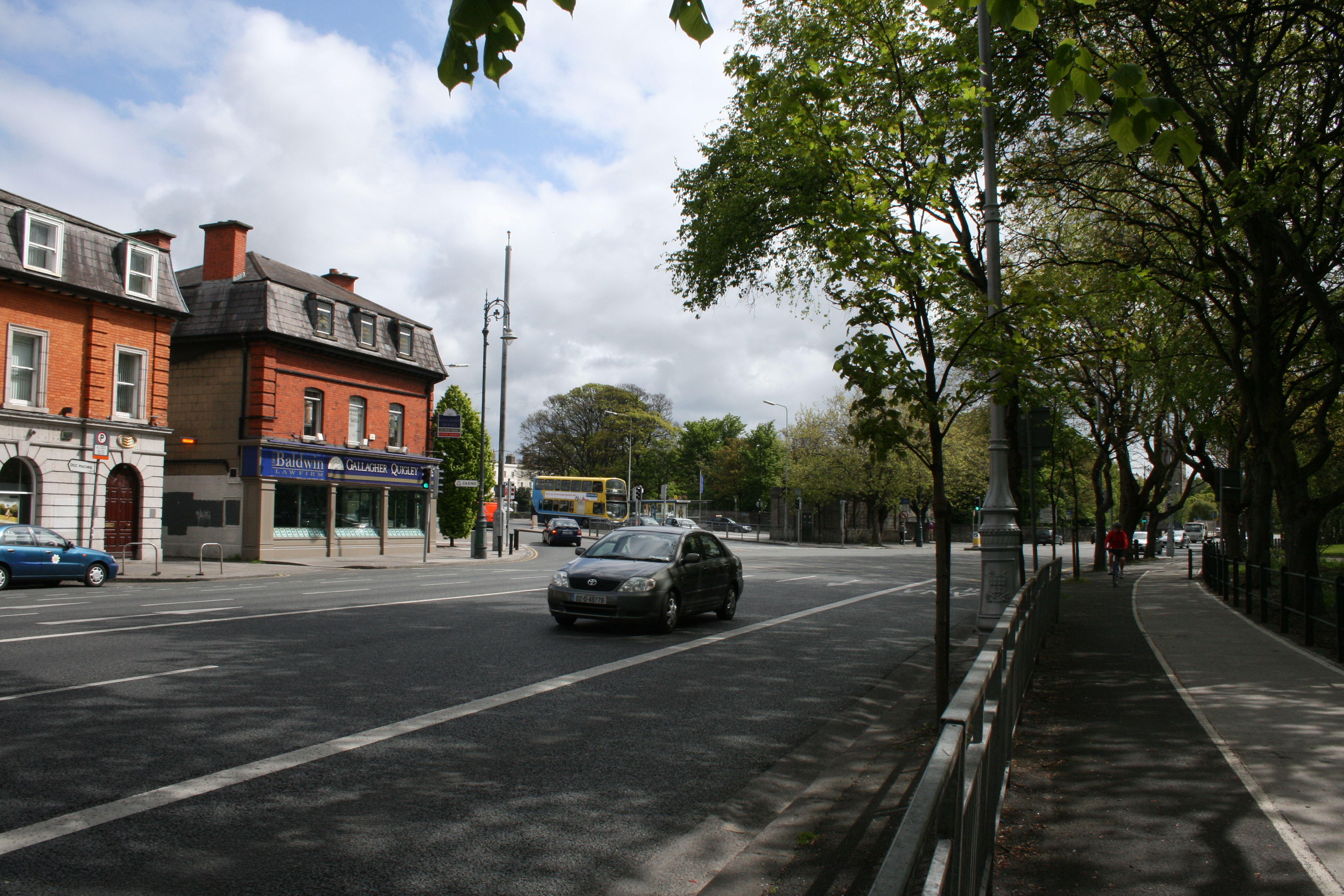 Fairview Dublin